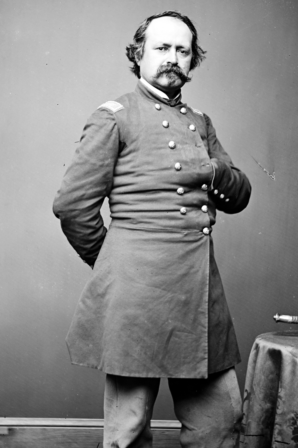 Charles H. Larrabee, US Representative from Wisconsin